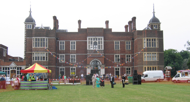 Charlton House east side. Charlton House is an Elizabethan manor house which still lies at the heart of Charlton Village, an area of London with a strong local identity. It is now owned by Greenwich Council and used for civil weddings and functions and as a branch library. This photo shows the Mayor declaring the annual Horn Fair open.